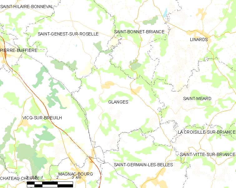 Map of French municipality Glanges